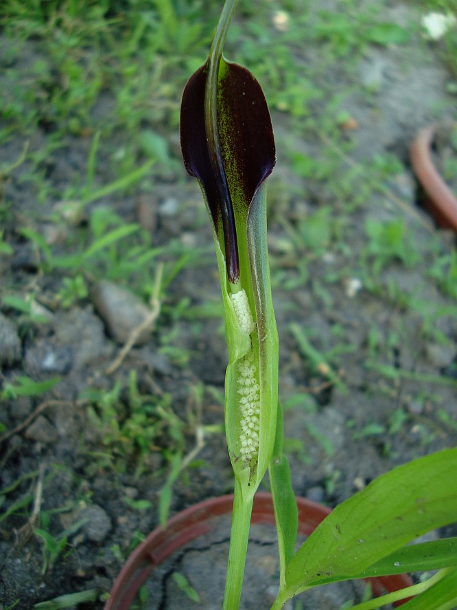 The interior of the inflorescence of Pinellia ternata (purple form)